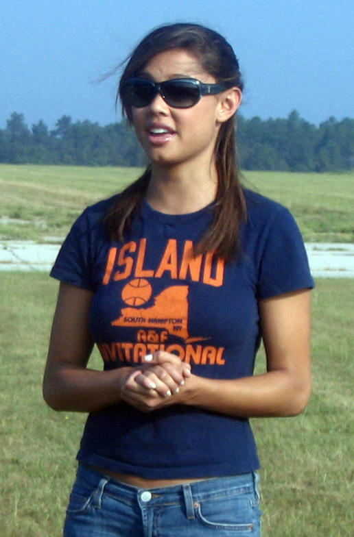 TRL host Vanessa Minnillo records her segment for Total Request Live before her tandem jump with the U.S. Army Parachute Team, the Golden Knights. The MTV piece will air on Tuesday, Sept. 13 at 5 p.m